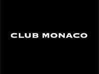 The logo for Club Monaco